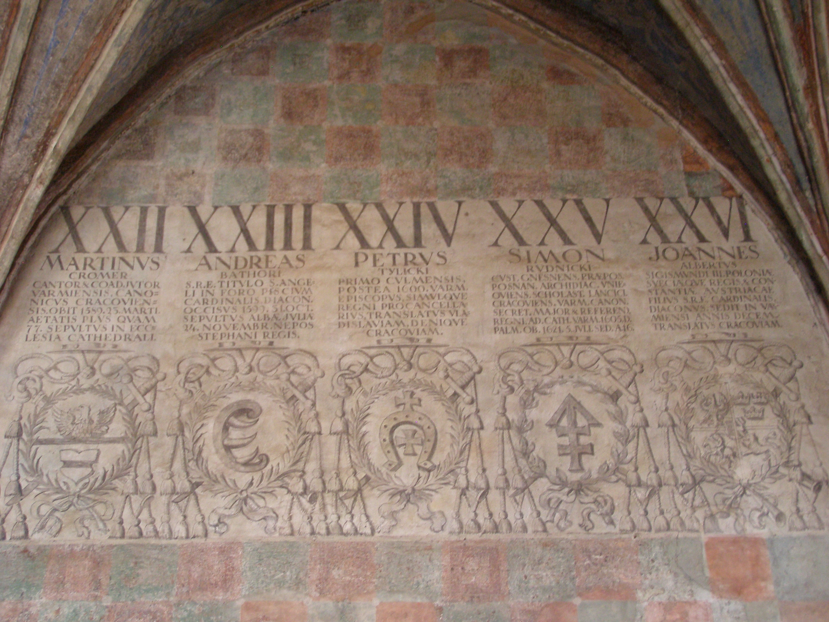 Lidzbark Warmiński - Bishop Castle; former bishops (part): Marcin Kromer, Andrzej Batory, Piotr Tylicki, Szymon Rudnicki, Jan Albert